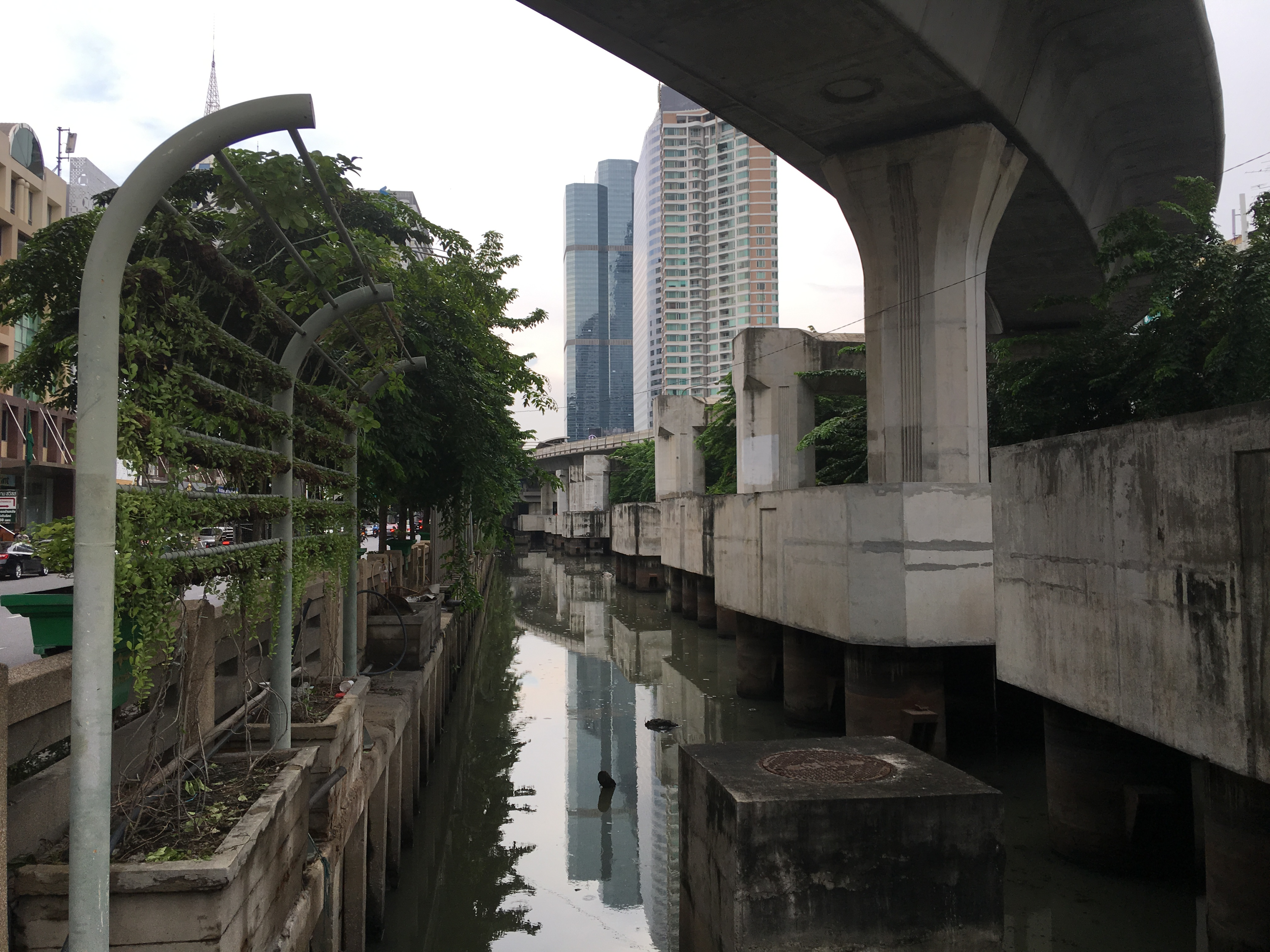 Khlong Chong Nonsi, a canal in Bang Rak district, here by the Silom Road. Bangkok, Thailand